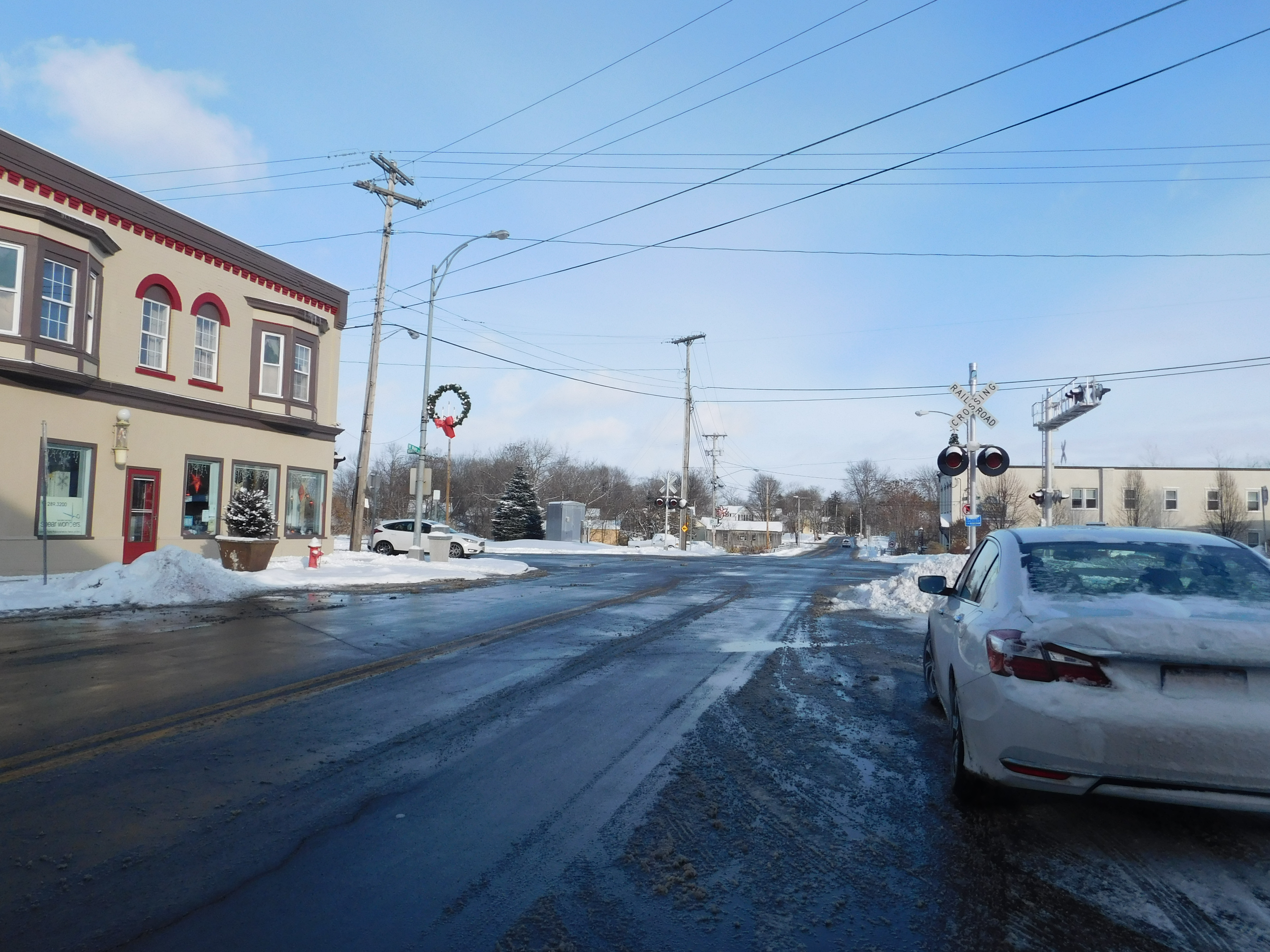 Shortsville, New York in December 2017.